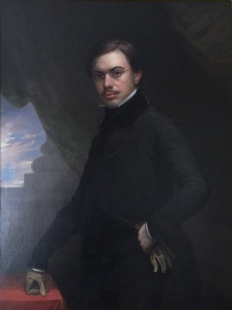 Painting of Justin Winsor (1831-1897) Duxbury Rural & Historical Society